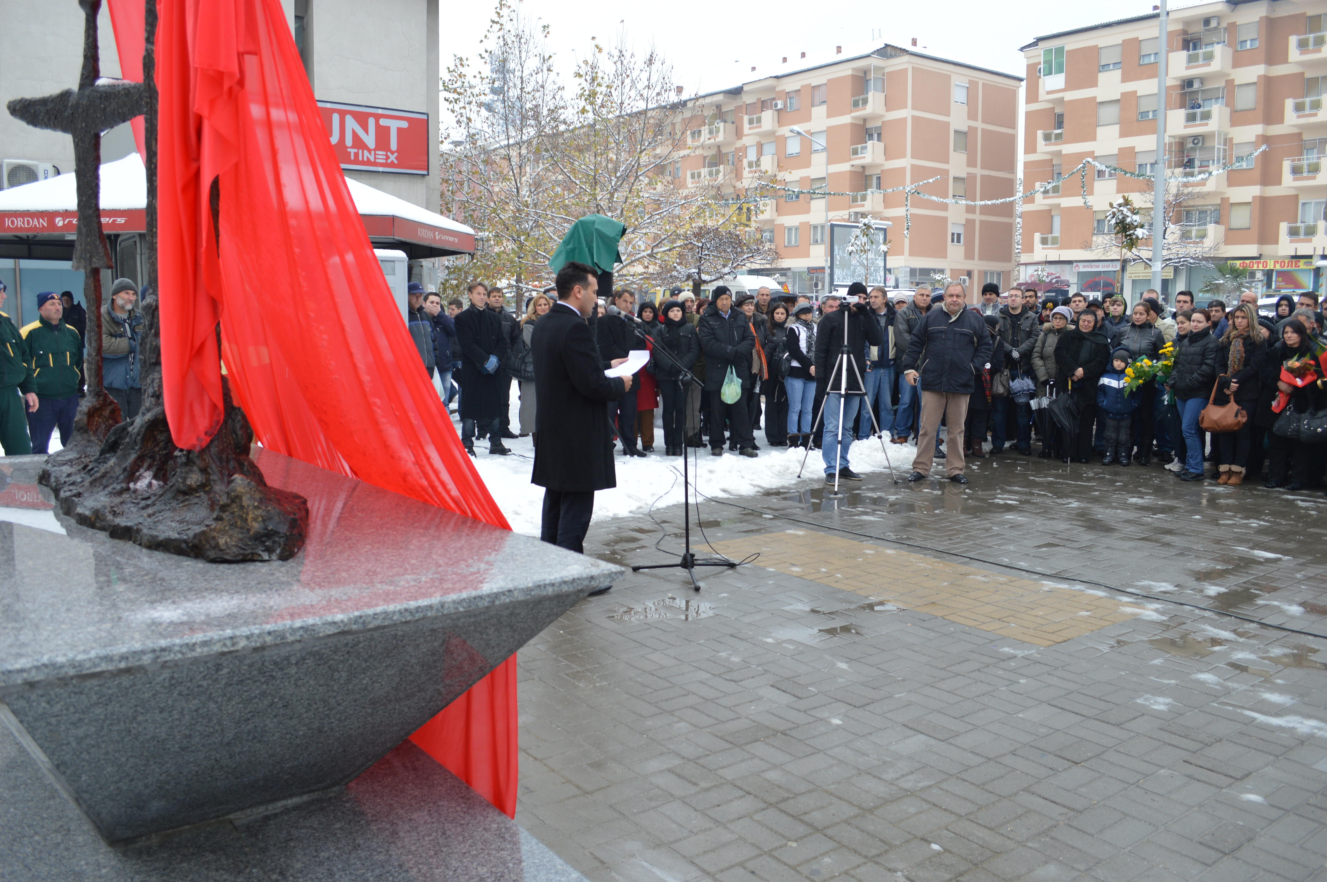 The Mayor of Strumica, Zoran Zaev, making a speech on the opening of the Monument of the killed in the Strumica wildfire of 2012.